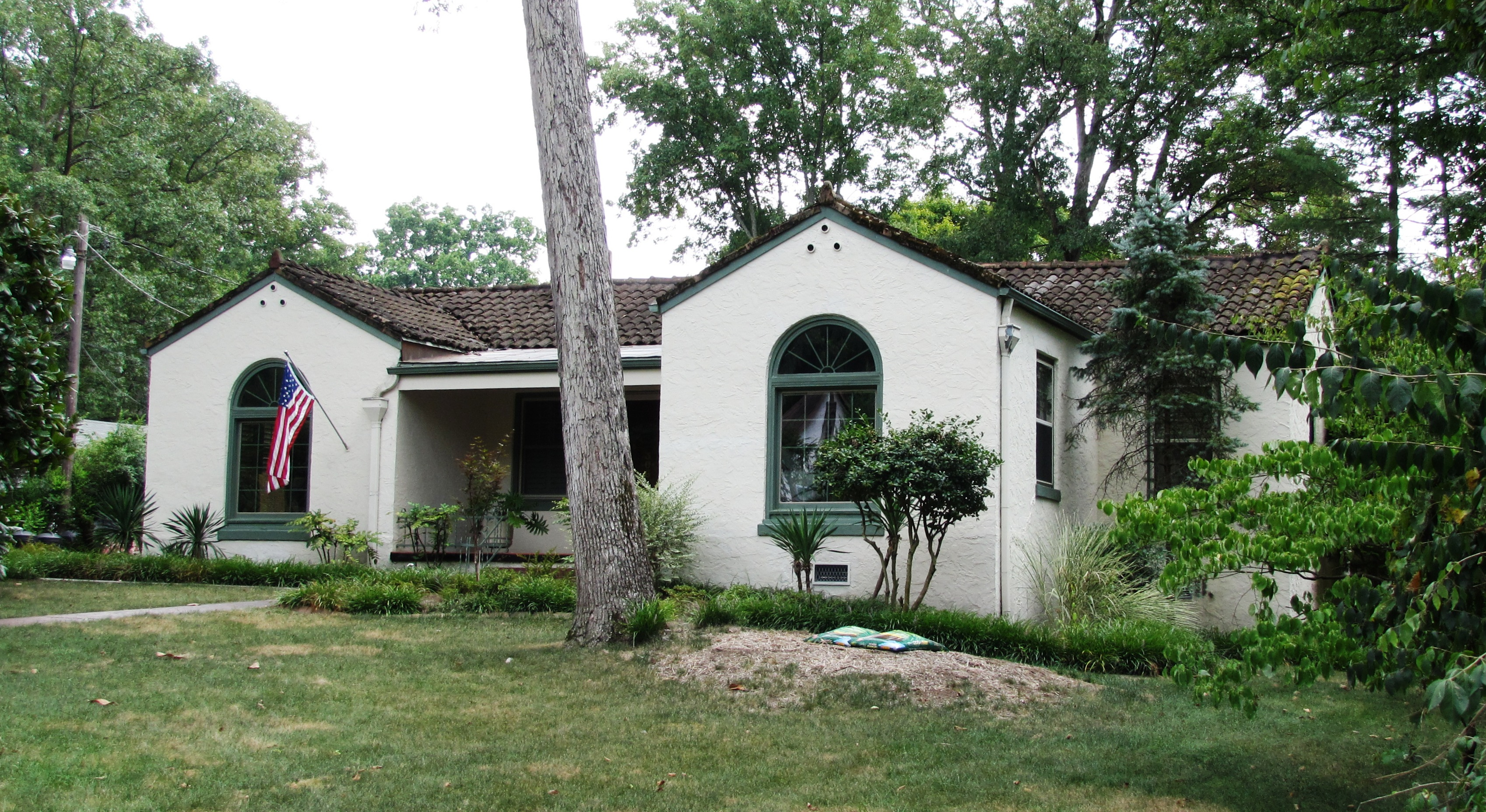 House at 306 Chamberlain Boulevard in the Lindbergh Forest neighborhood of Knoxville, Tennessee, USA. Built circa 1930, this house is now a contributing property within the NRHP-listed Lindbergh Forest Historic District.